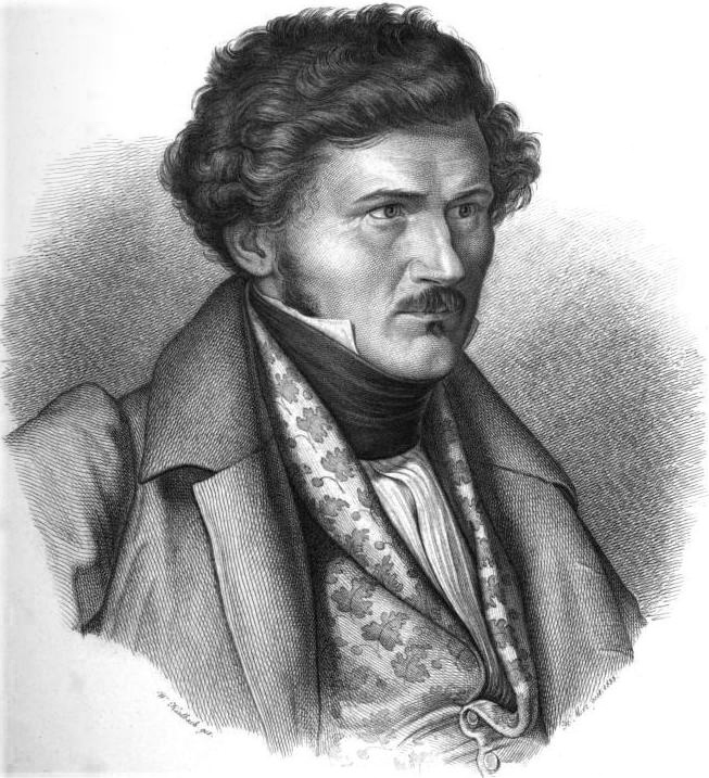 Portrait of Swiss Engraver Samuel Amsler (17.12.1791–18.05.1849)